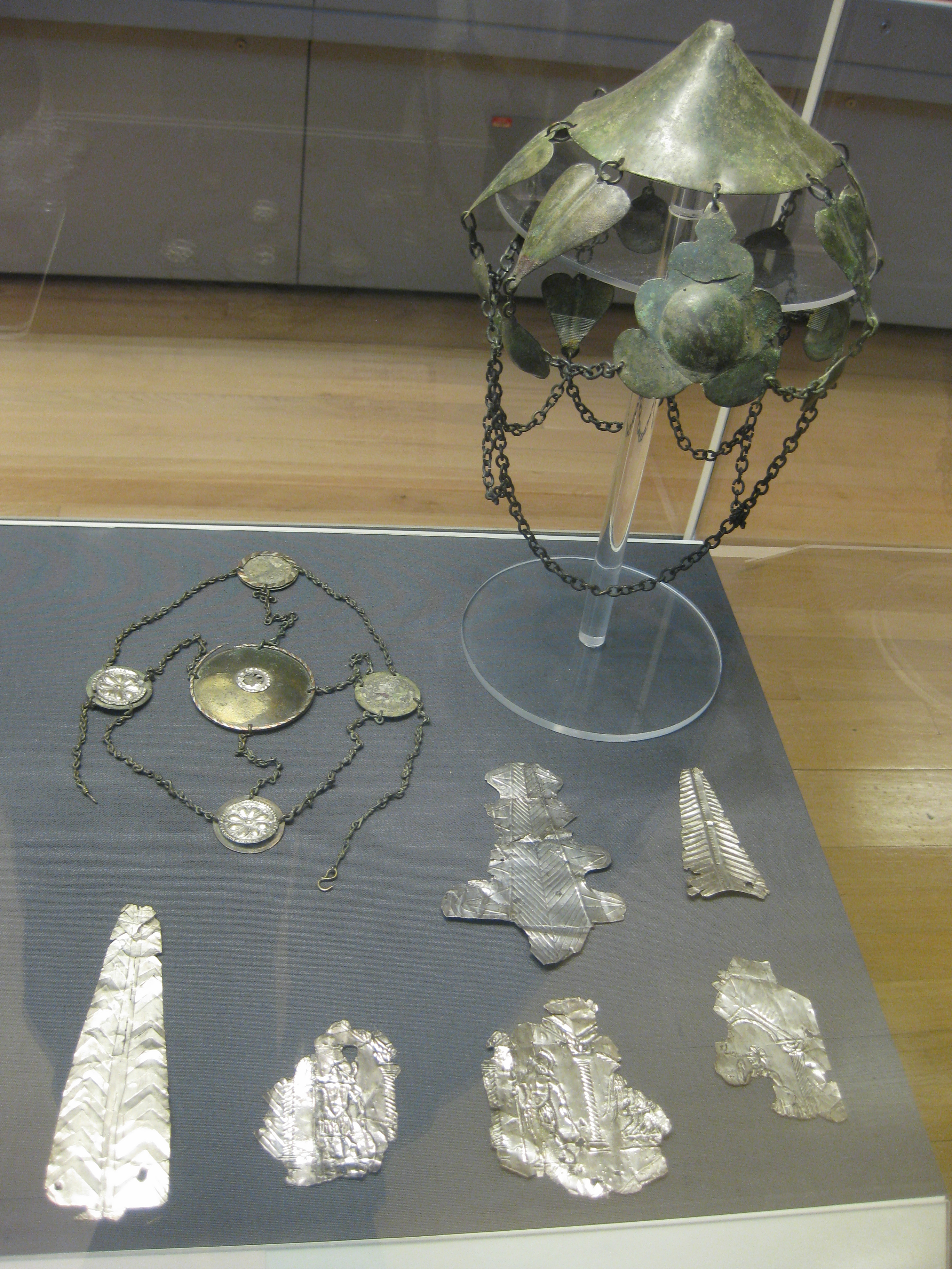 Photograph of "Stony Stratford Hoard" : a temple headress and votive objects in the British Museum (catalogue OA.252). Romano-British. Found in the parish of Old Stratford.